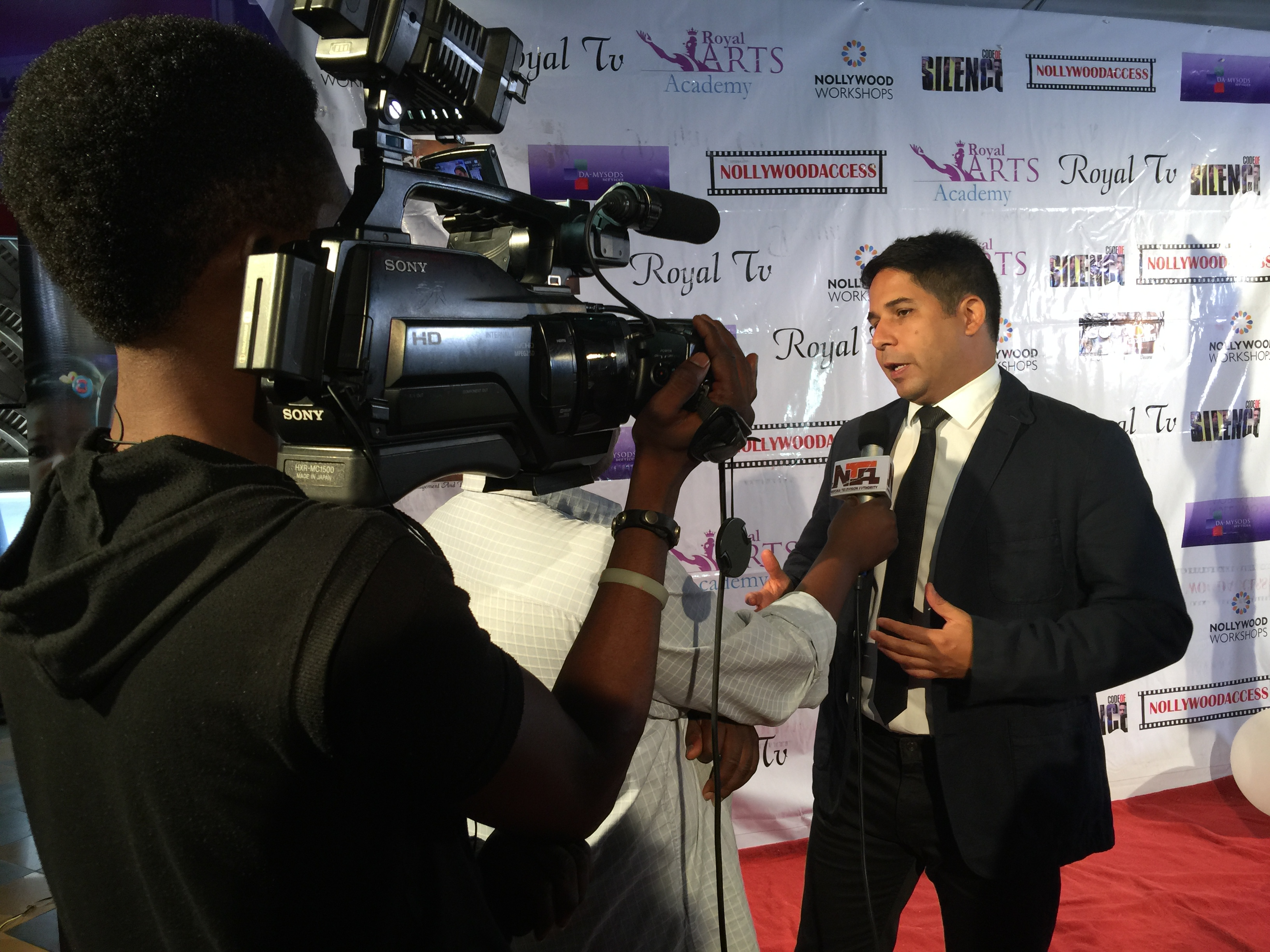 Luis Castro in Lagos, Nigeria